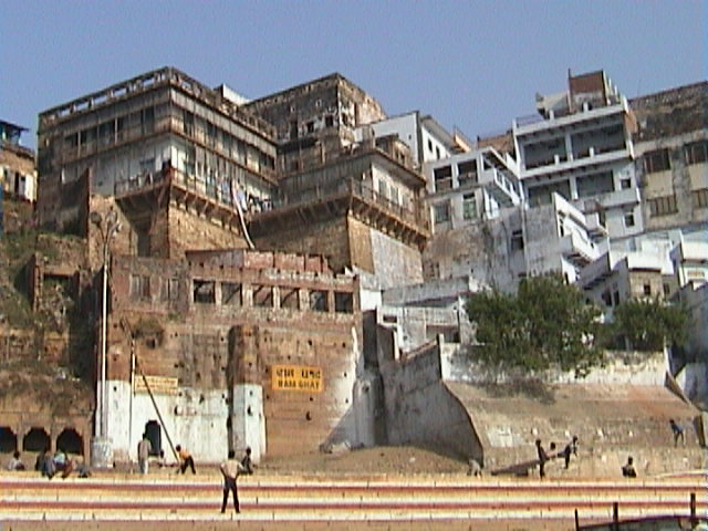 See Varanasi Development Cooperation Handbook/Stories/Responsible Development - Varanasi The Varanasi Heritage Dossier Kautilya Society Mediendatei abspielen Vrinda Dar - How we got involved in heritage protection of Varanasi